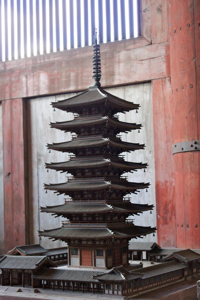 Model of the lost pagodas of Todaiji. Model created arround 1912 under the supervision of Shun'uchi Amanuma.